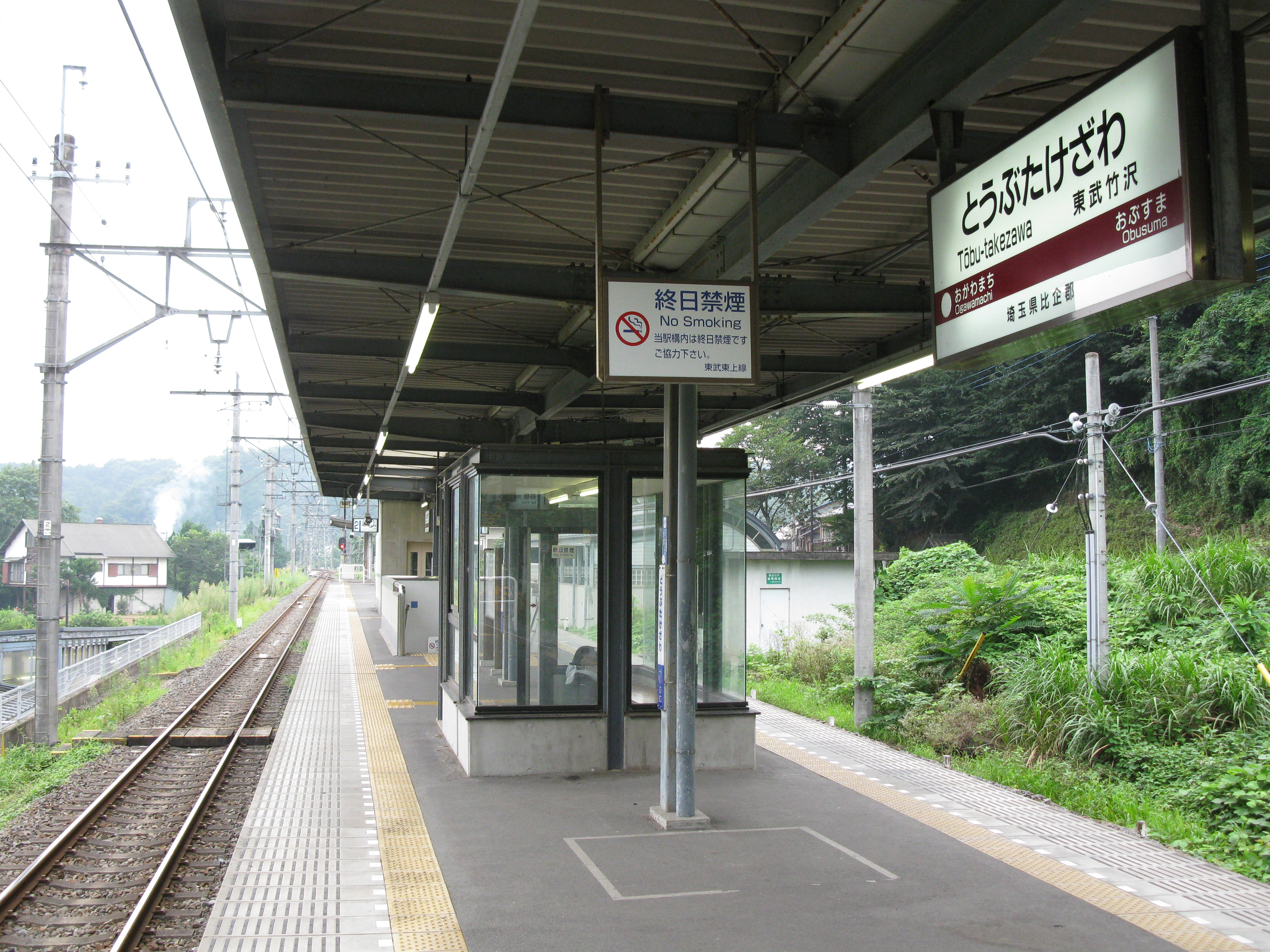 Tōbu-Takezawa Station platform (Tōbu Railway Tōjō Main Line)